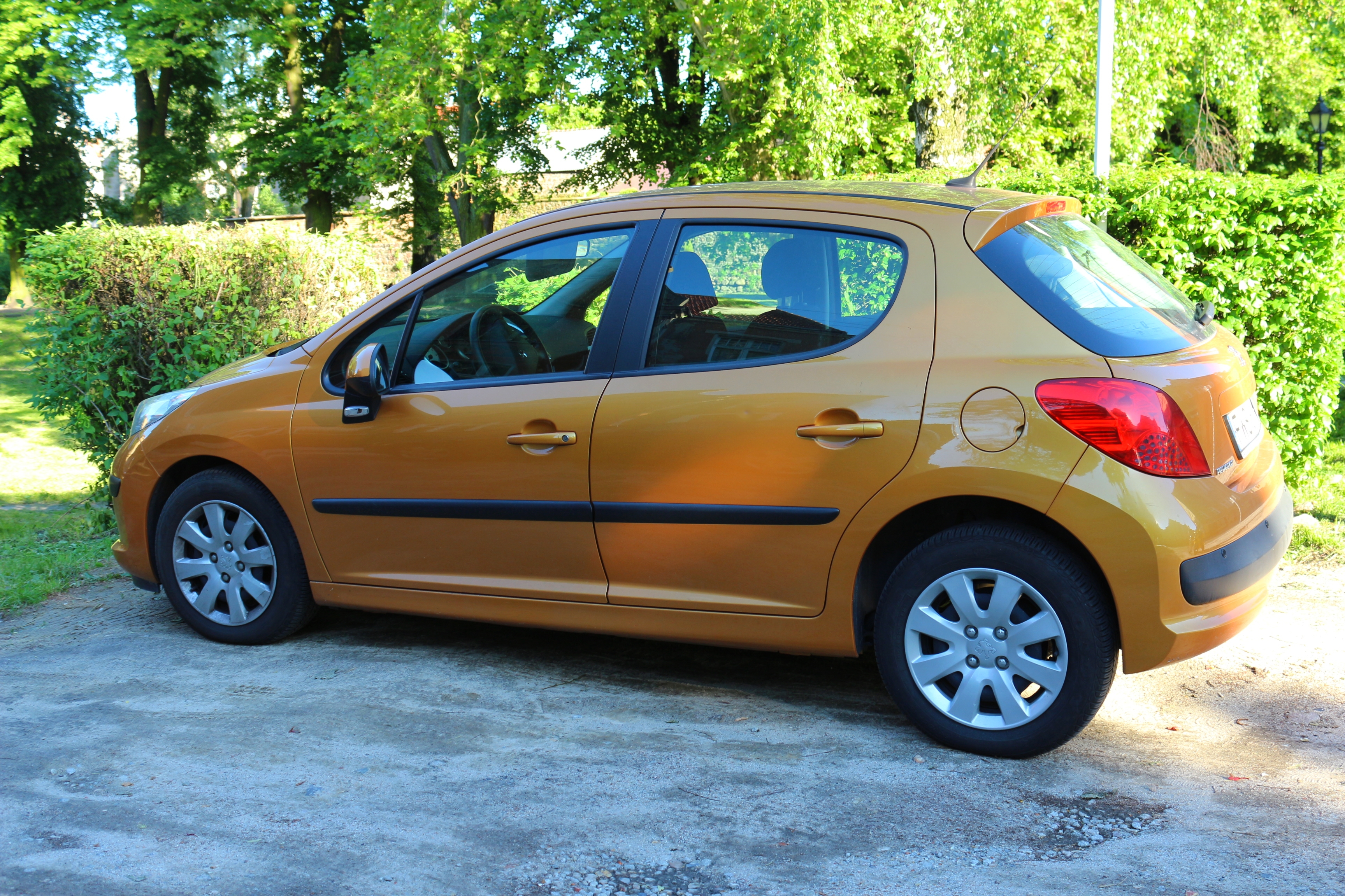 Peugeot 207